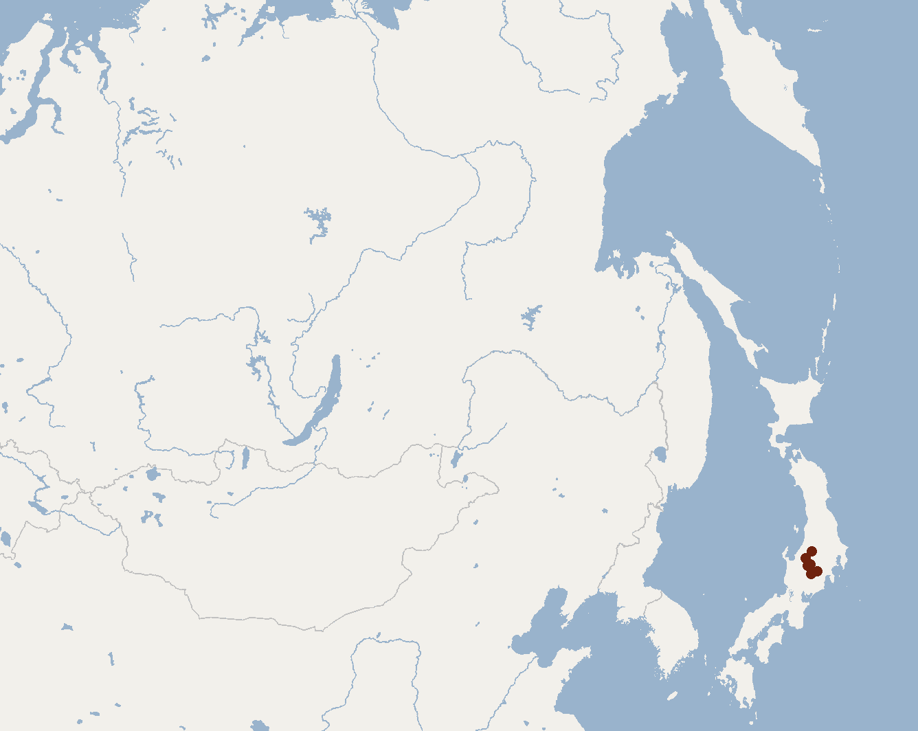 According to Yoshiyuki, 1989